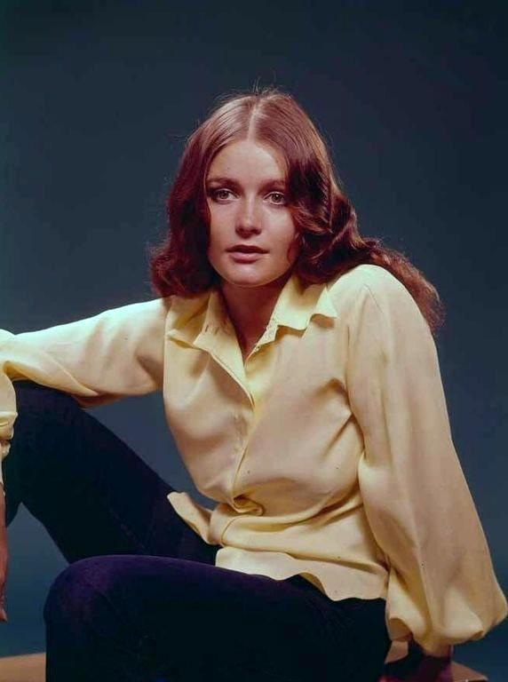 Publicity/press headshot of Margot Kidder, dated 1970.